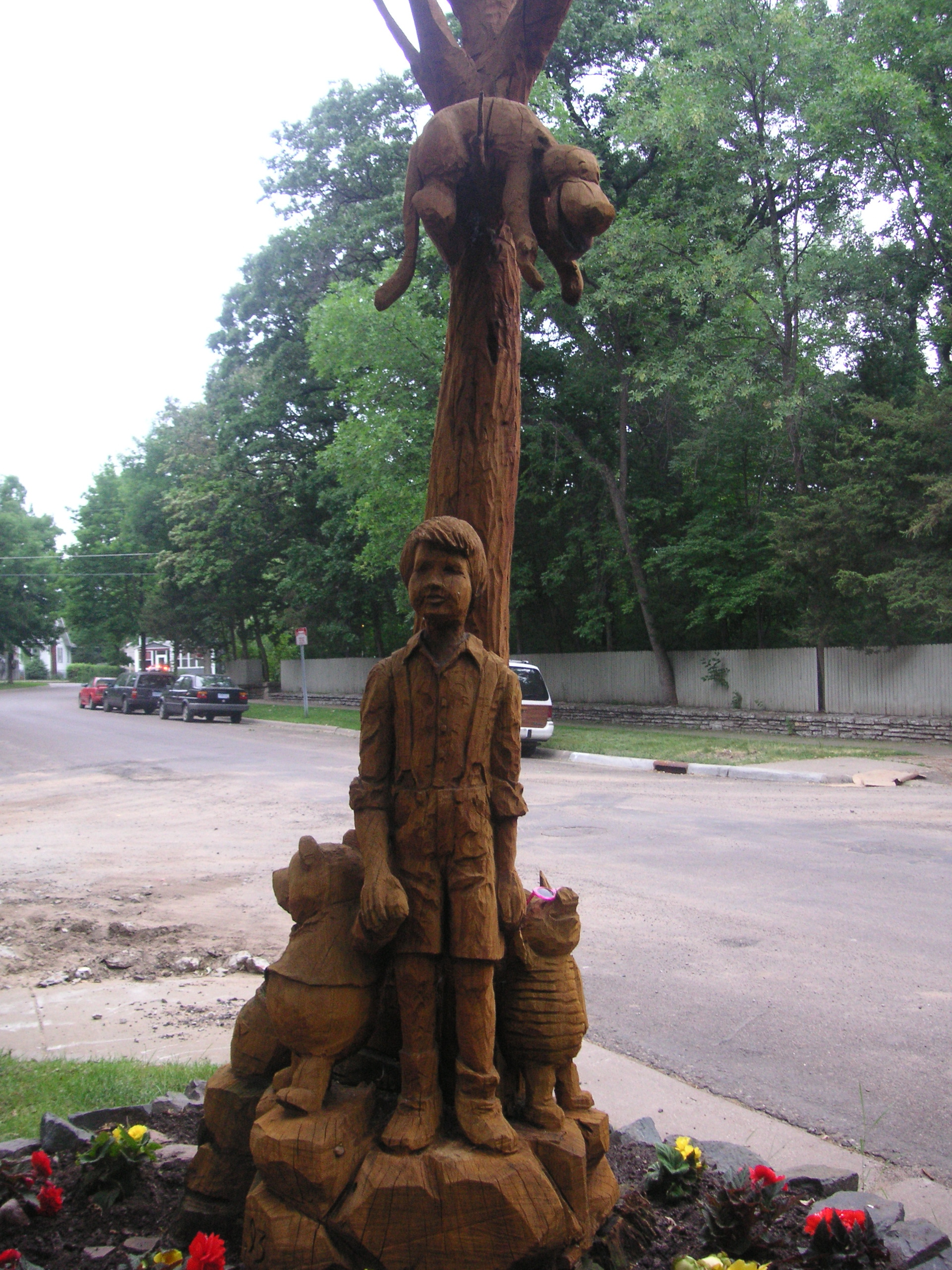 Christopher Robin, Pooh, Piglet and Tigger (US Road Trip)